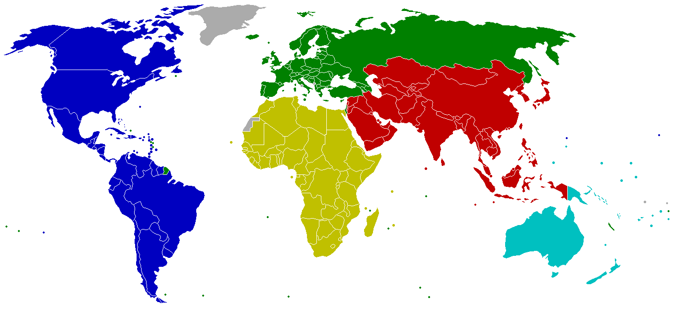 World map with continental associations of National Olympic Committees (NOC)